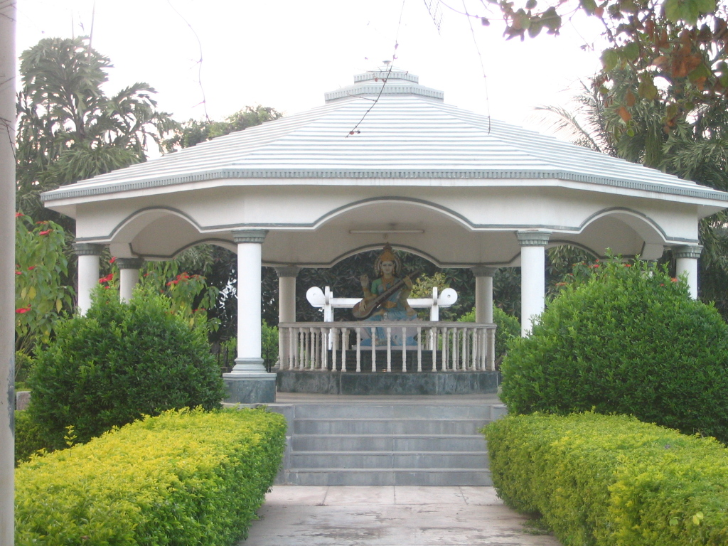 the calm temple